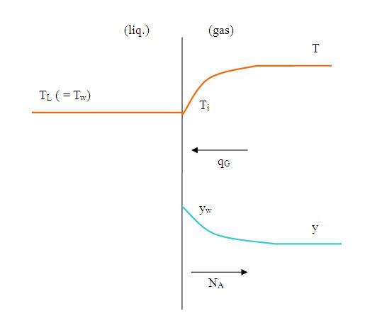 Temperature and concentration profiles at gas-liquid interface during wet-bulb temperature measurement, at final time t2.